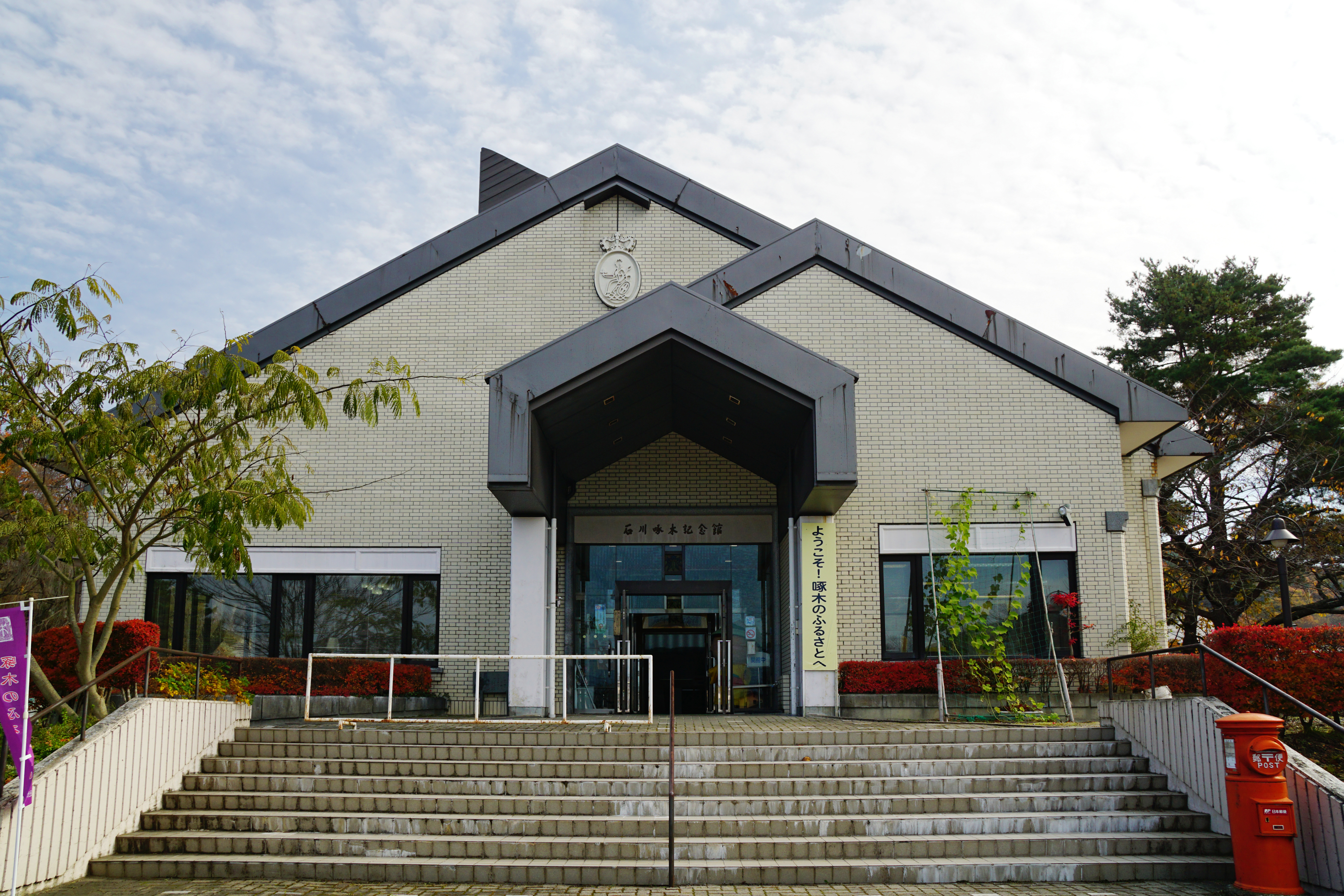 Ishikawa_Takuboku_Memorial_Museum in Shibutami, Morioka, Iwate prefecture, Japan